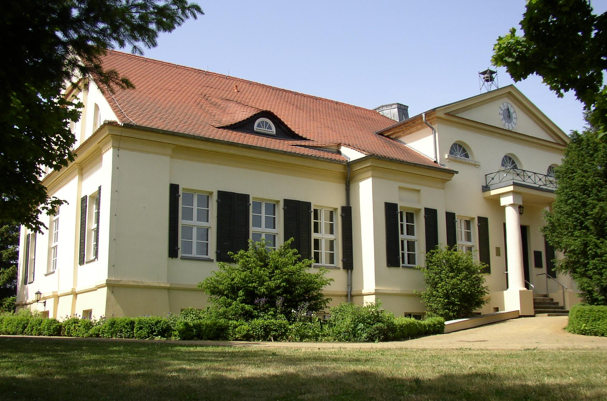 Neuhaus manor in Lübben in Brandenburg, Germany